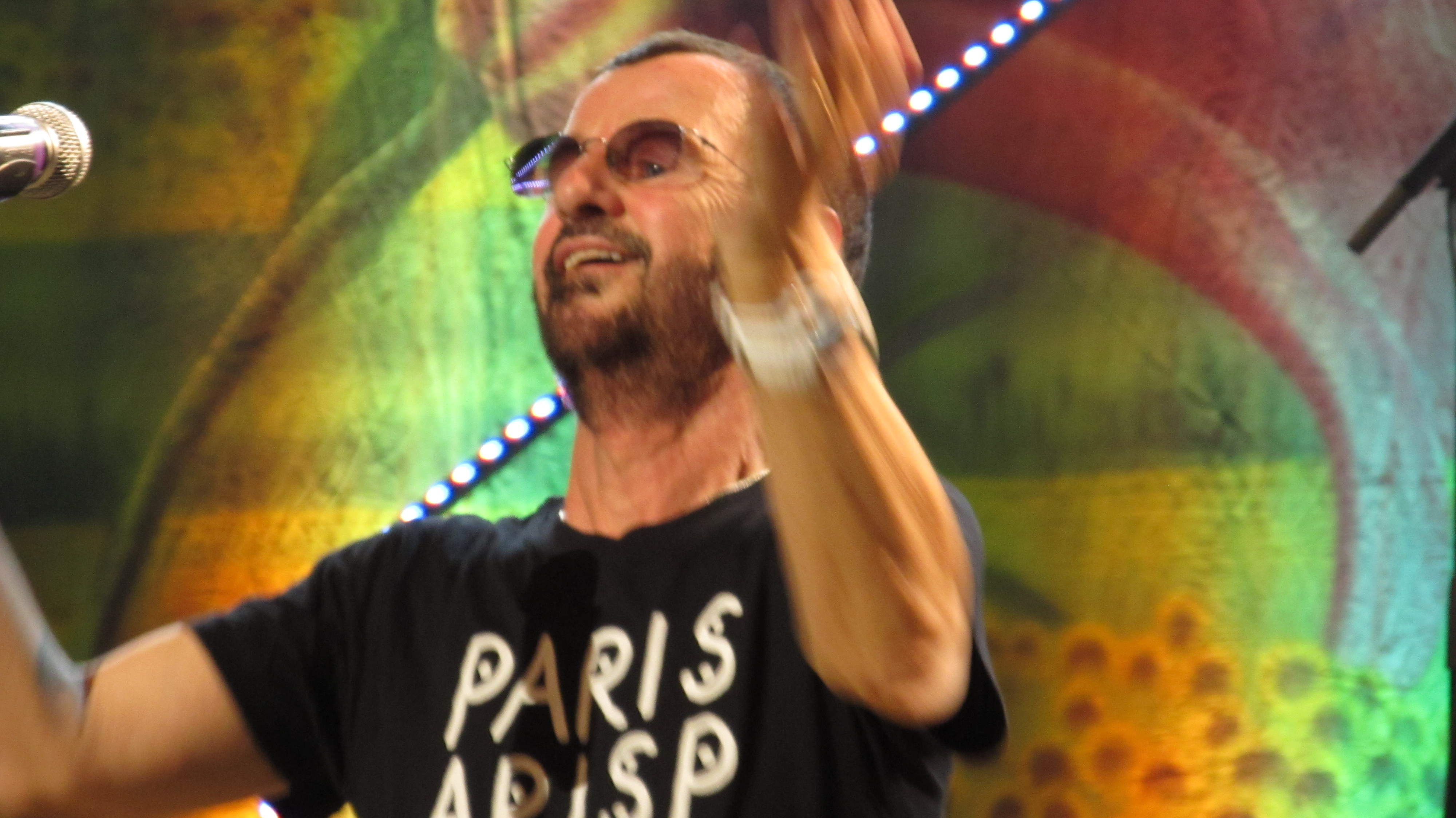 Ringo Starr concert in Paris June 26, 2011 : Ringo Starr and his All-Starr Band